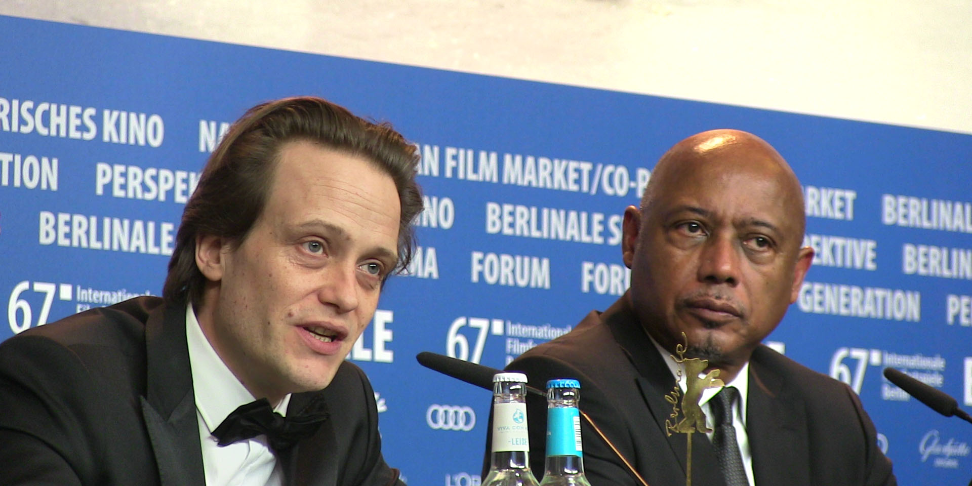 August Diehl and Raoul Peck at the press conference of The Young Karl Marx at the 2017 Berlin International Film Festival